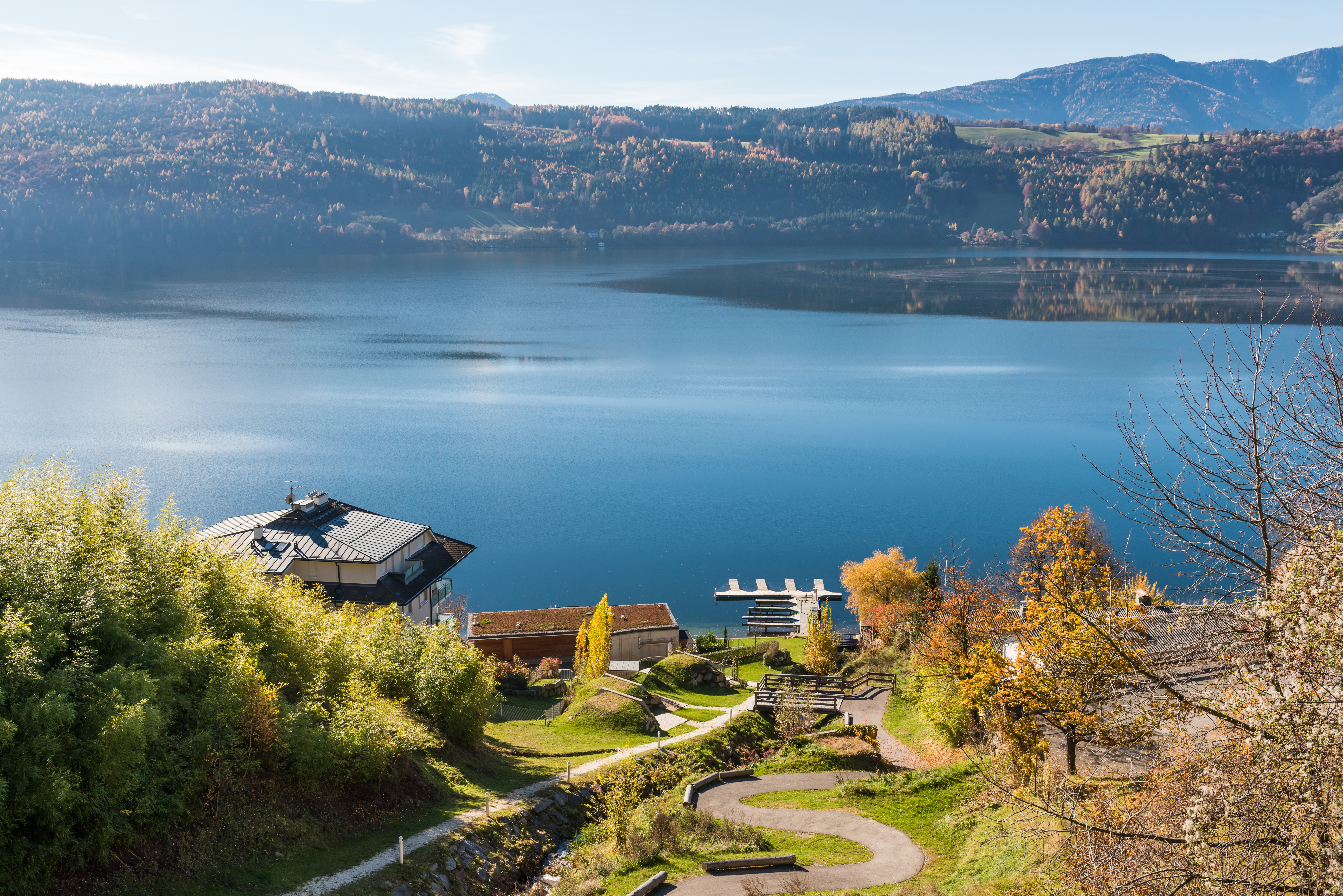 Beach of the Hotel Sonnenhof on the Millstaetter See in Dellach #9, market town Millstatt, district Spittal an der Drau, Carinthia, Austria, EU